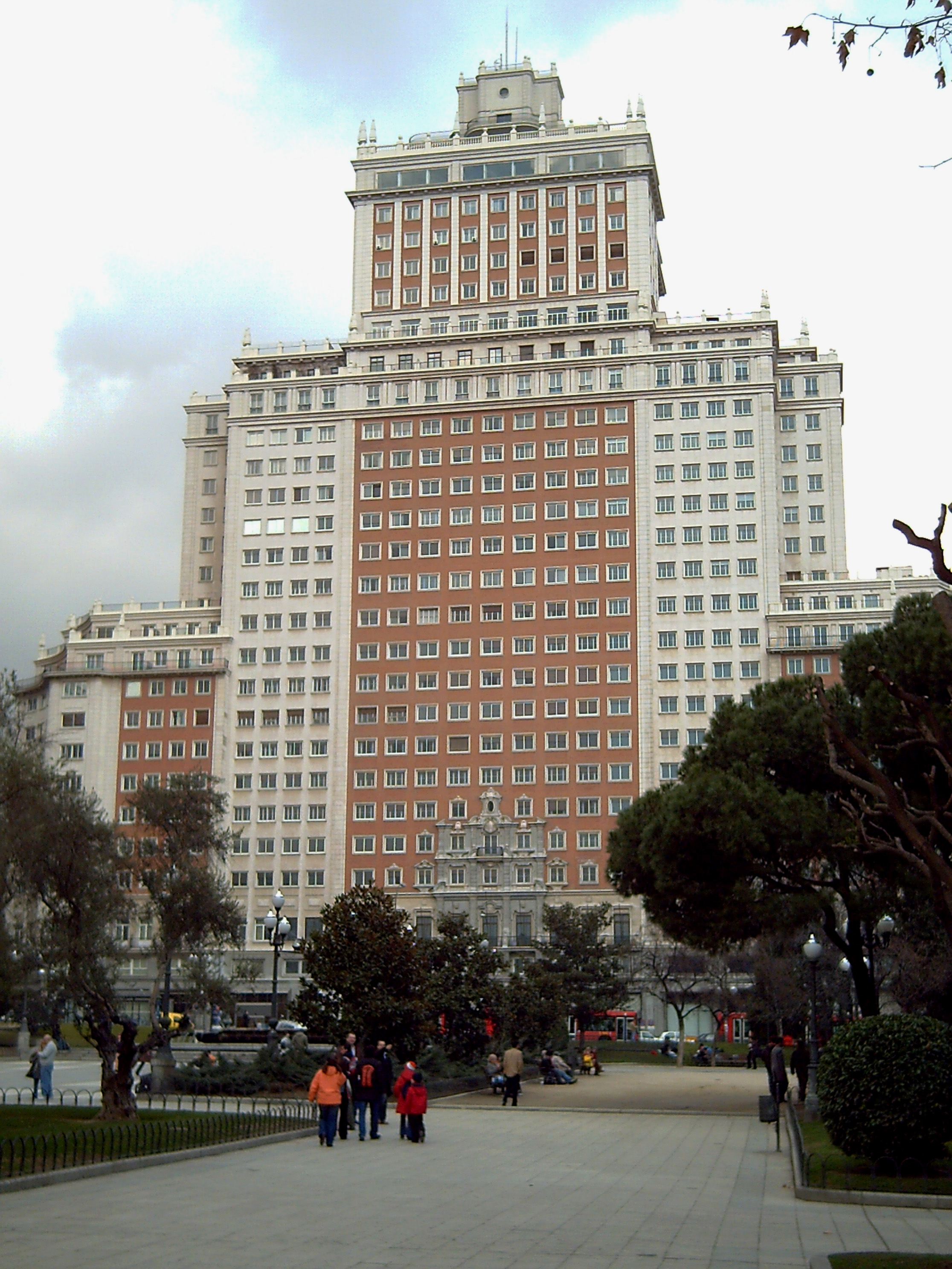 View of the south-west façade of Edificio España (building) from Plaza de España (square) in Madrid (Spain).